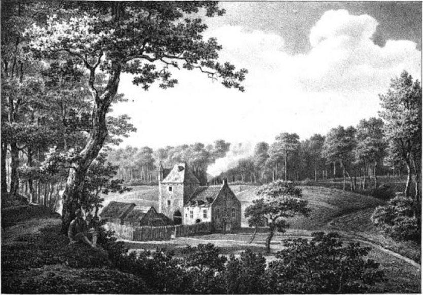 Dry Borren (printed in Guillaume Philidor Van den Burggraaf, Collection des anciennes portes de Bruxelles, 1823)